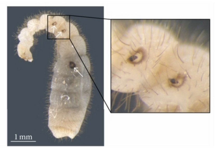 Ant larva parasitized by planidia larvae of Latina rugosa (attached planidia magnified and indicated)